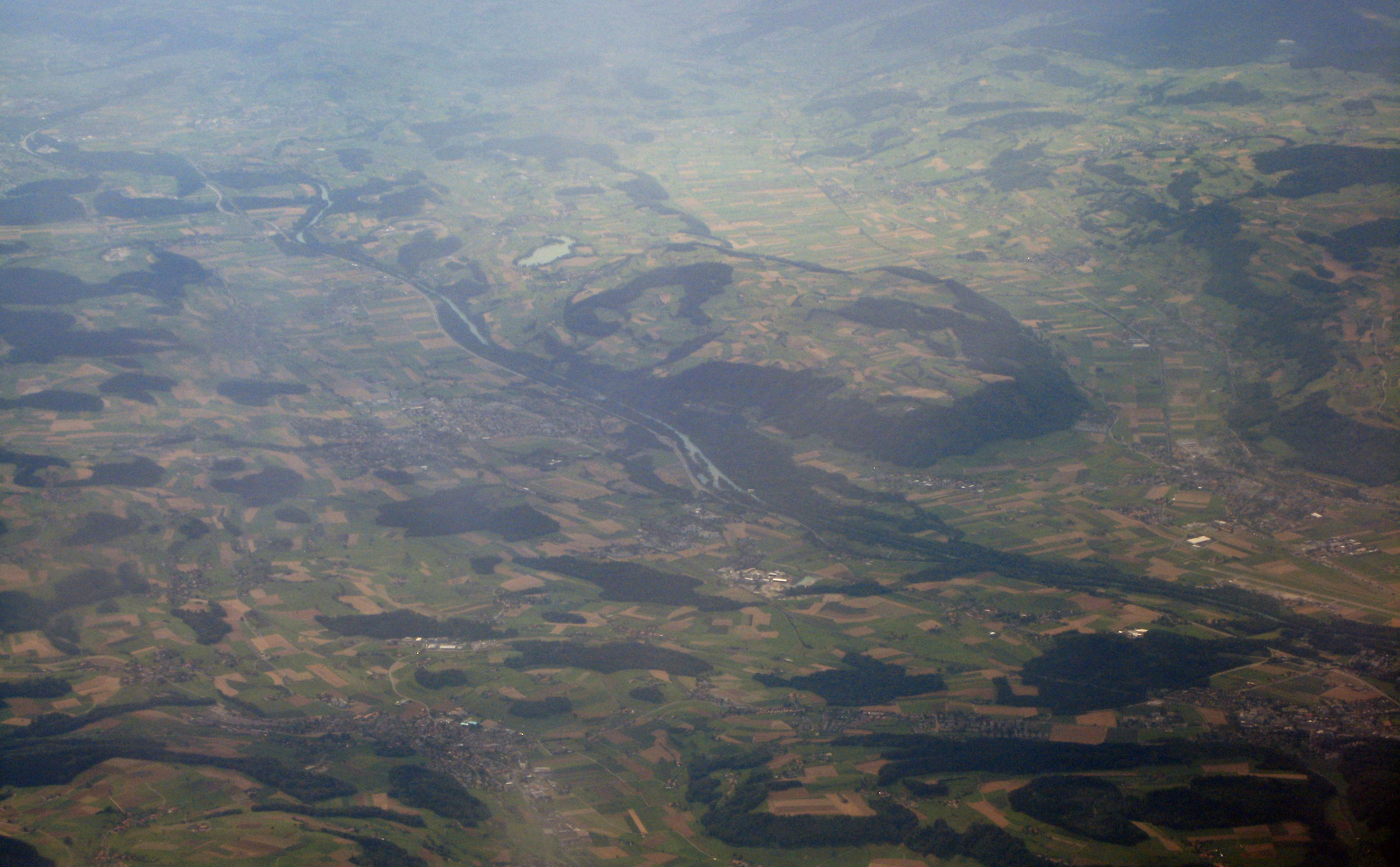 Aerial view, looking southeast, of the Belpberg mountain at the conjunction of the Aare and Gürbe valleys. To the right, Belp and Berne Airport.